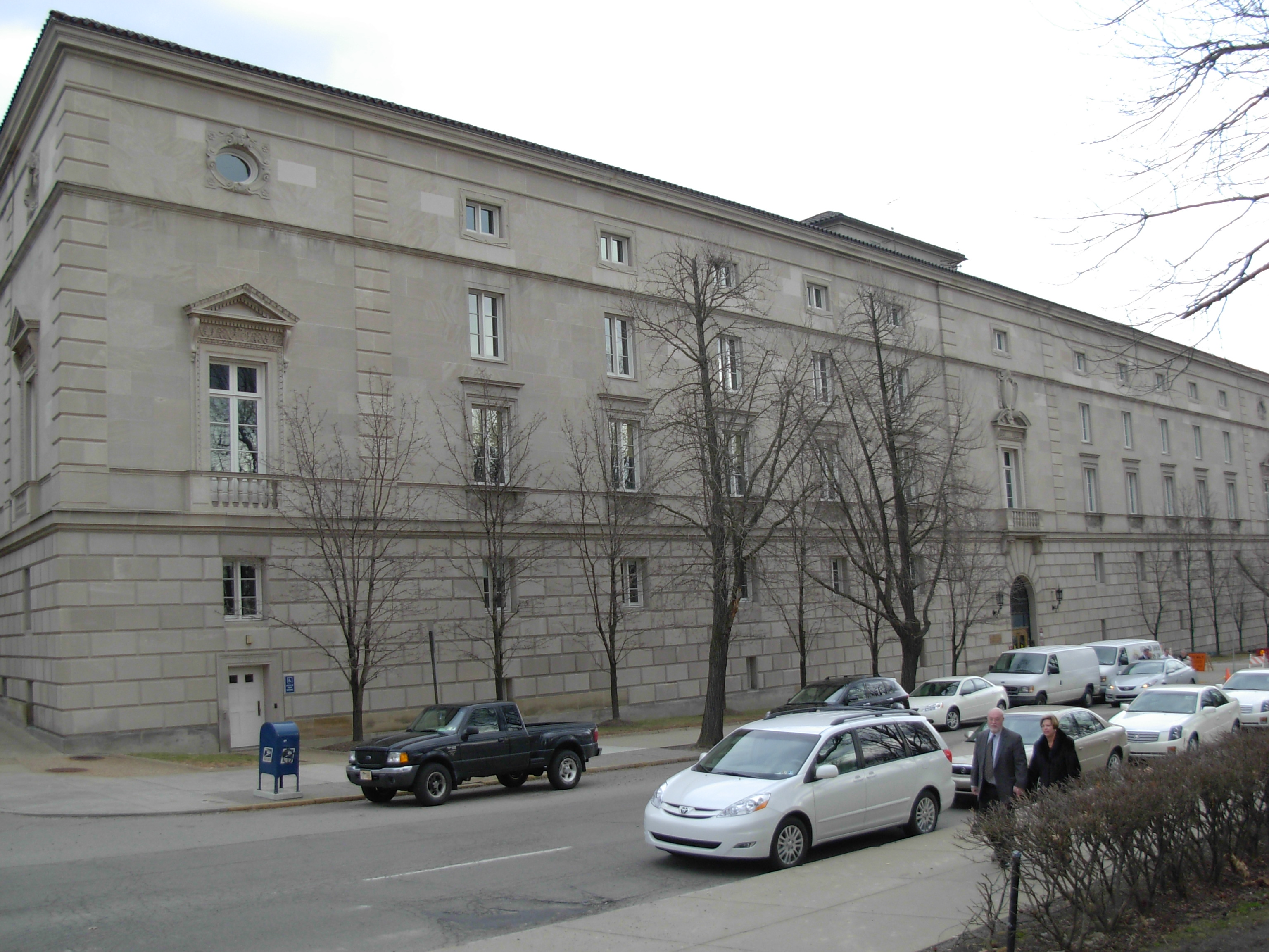 Pittsburgh's Board of Education building Photo by myself.